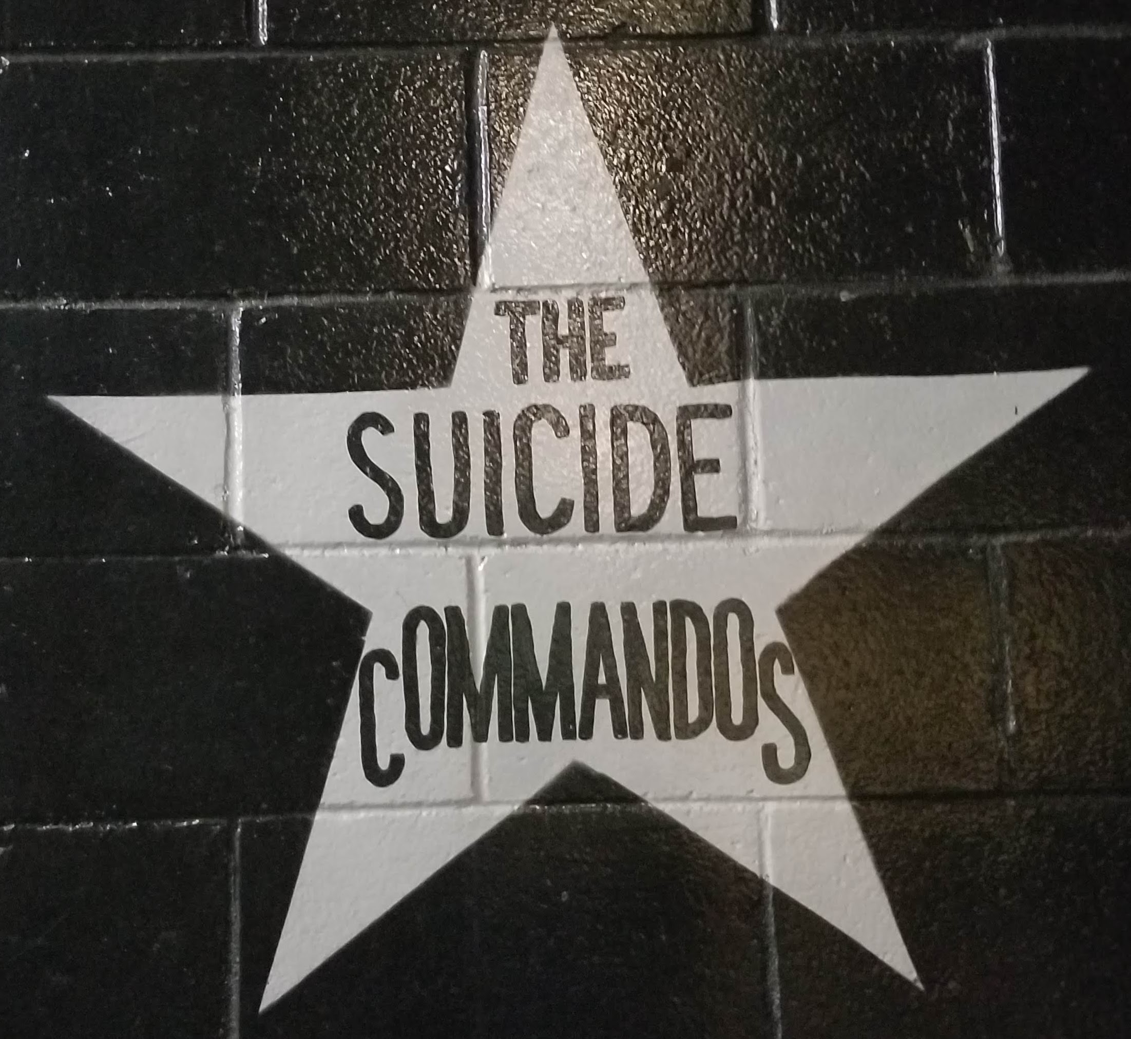 Star representing the band Suicide Commandos on the outside mural of the Minneapolis nightclub First Avenue